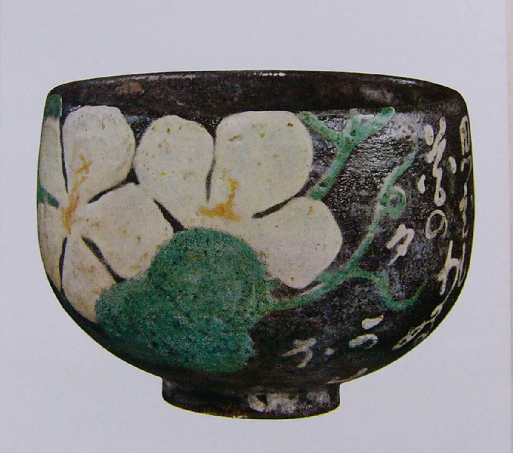 Tea bowl with pattern of Flower of Bottle Gourd, by OGATA KENZAN(1663, Kyoto-1742, Edo), glazed pottery, Japan, , early 17th century, Yamato Bunkakan, Nara, Japan